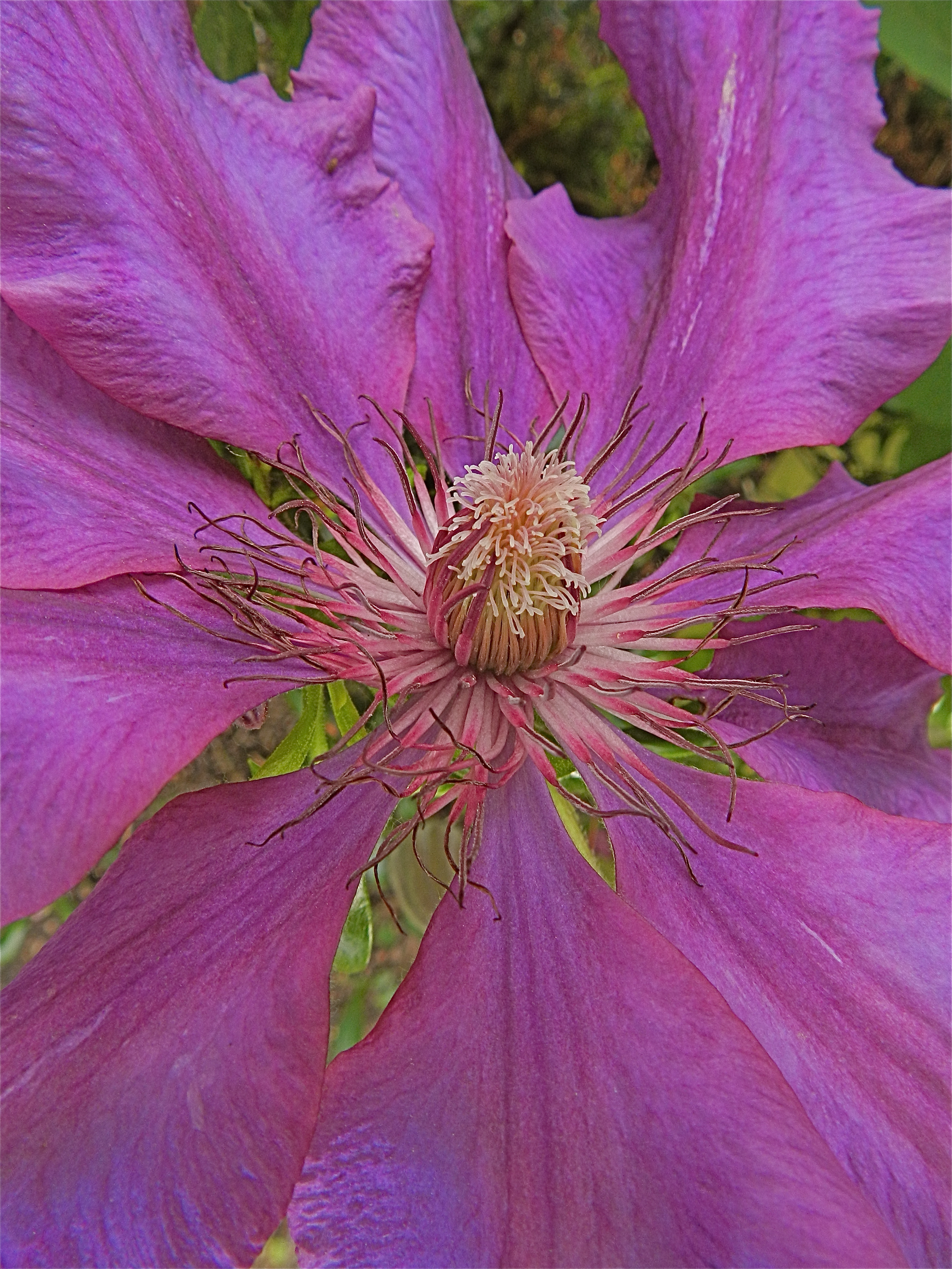 Back garden, patio trellis.